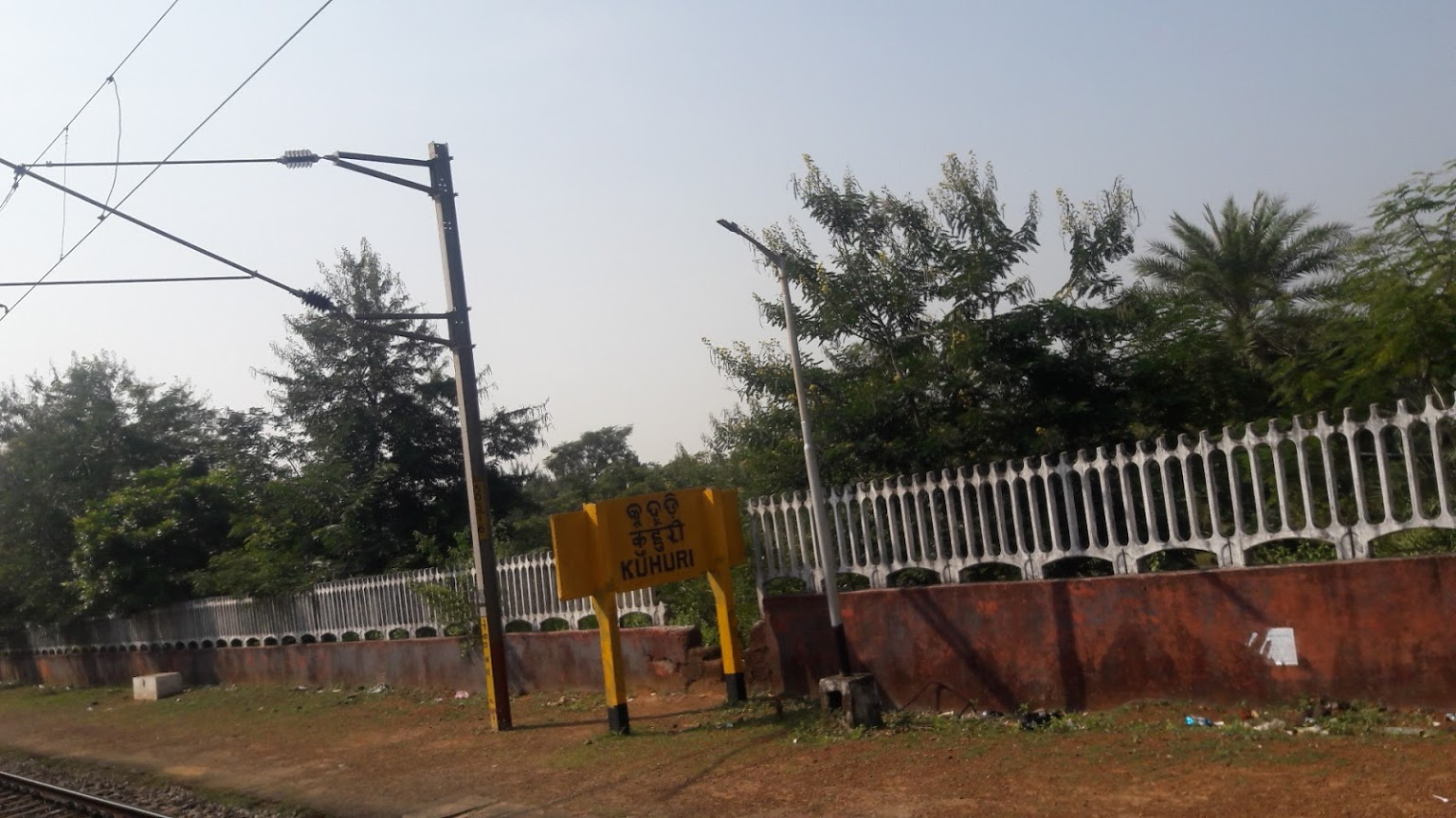 This is the Picture of Kuhuri railway station